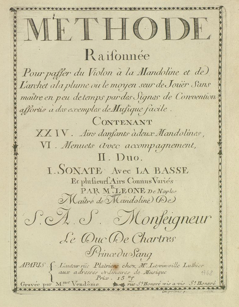 Title page from Analytical method for mastering the violin or the mandolin by Gabriele Leone, published in Paris, 1768, showing parts of a mandolin. Leone was an early teacher of mandolin technique in London and Paris.